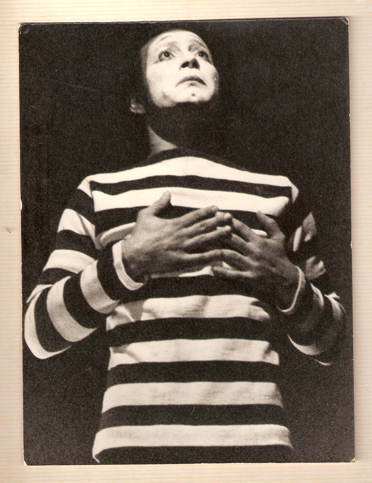 Humberto Gulino as a mime